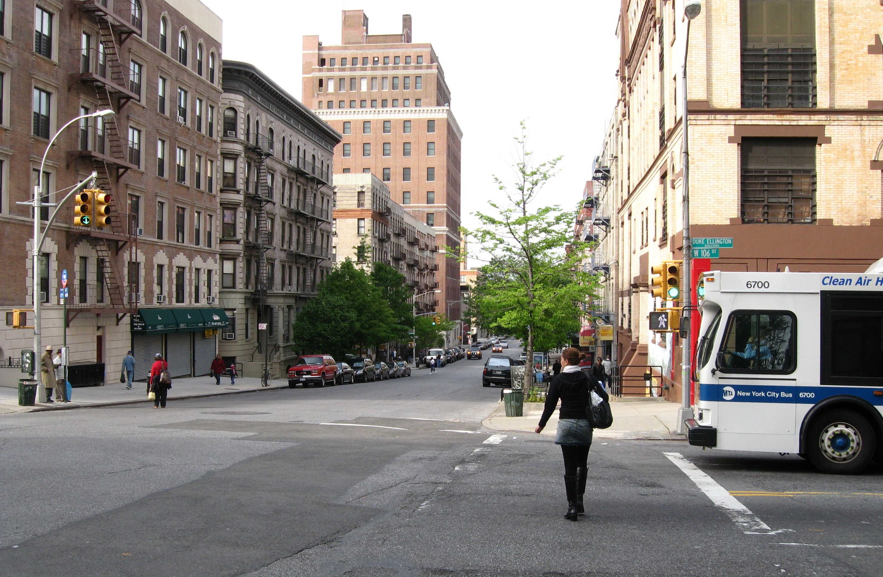 Looking north from 106th Street along Manhattan Avenue on a mostly cloudy afternoon. ZIP 10025.